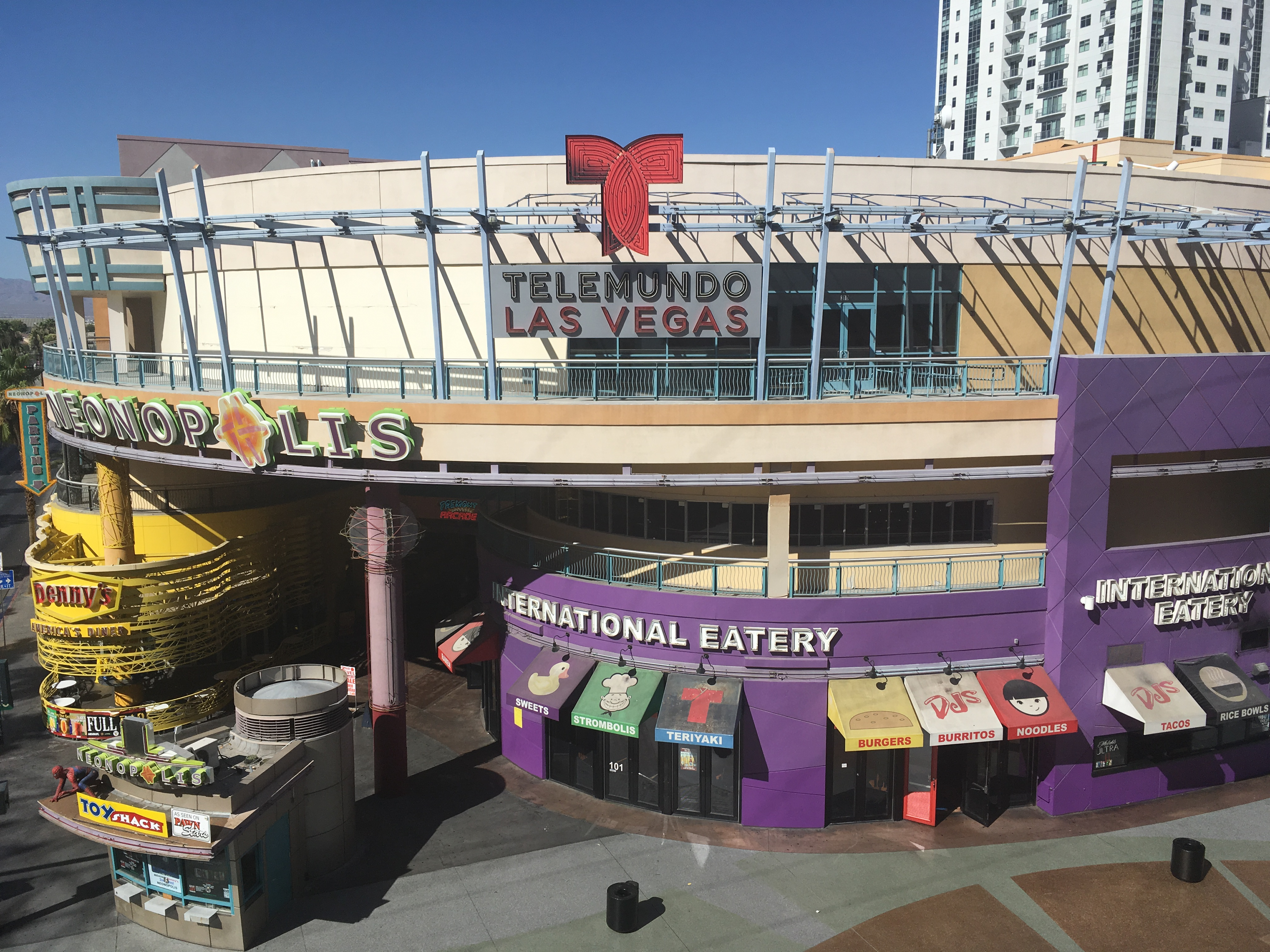 The exterior of the Neonopolis shopping center in Downtown Las Vegas